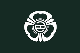 Flag of Shikama Miyagi